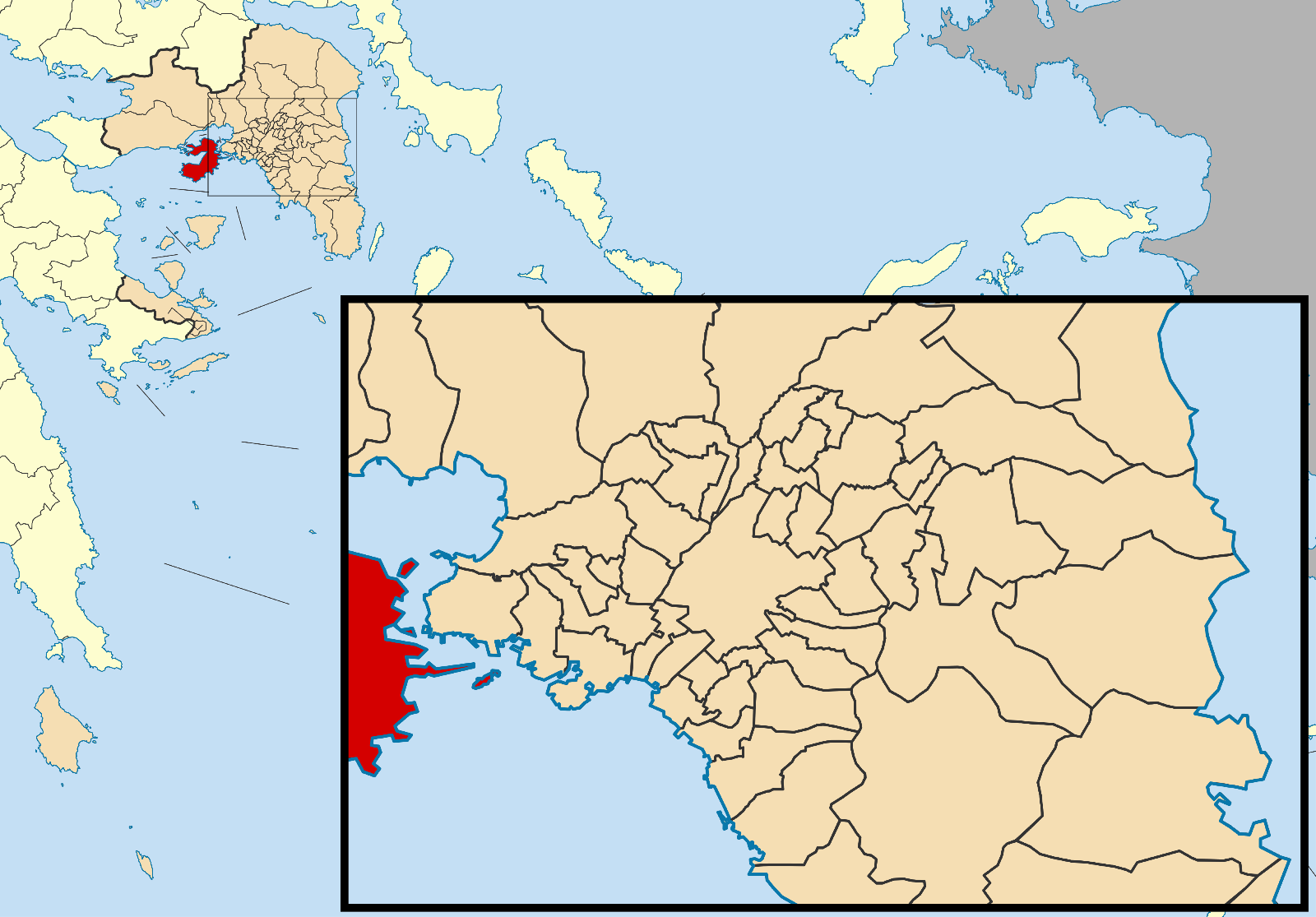 Locator map for Salamina municipality in Greek region Attica (2011)